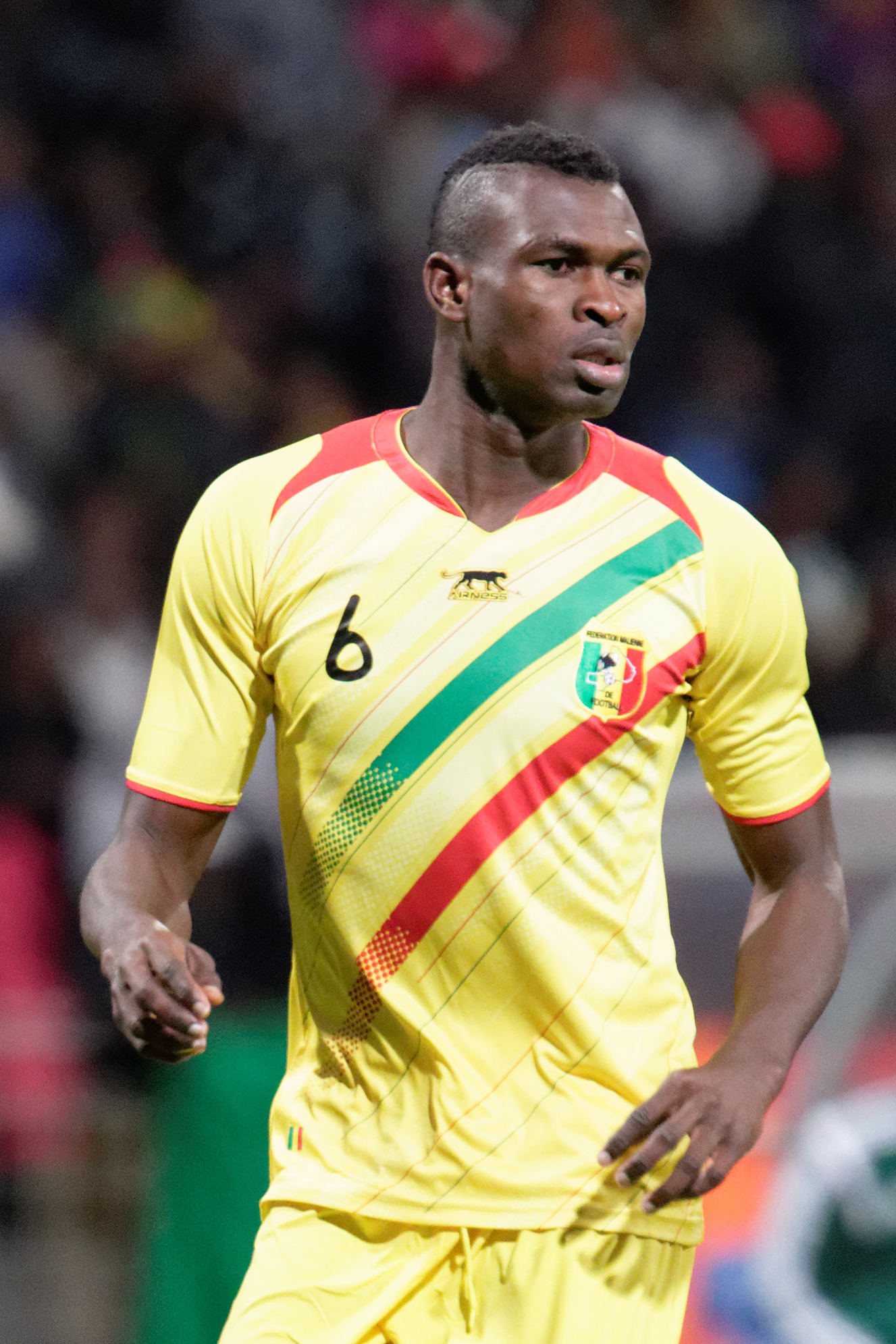 Mali vs Ghana, exhibition game at Paris, 31st March 2015.